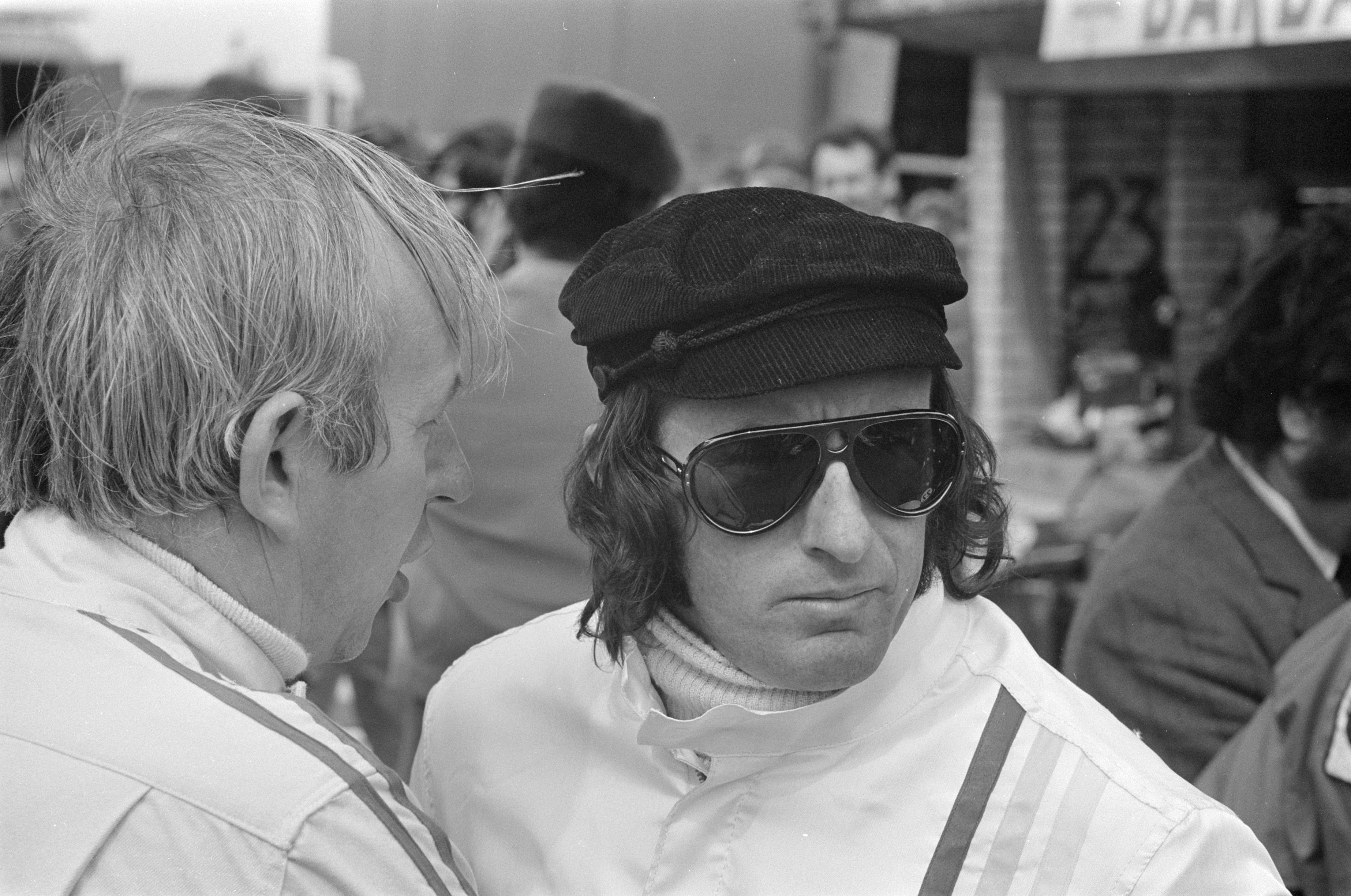 Jackie Stewart at the 1971 Dutch Grand Prix